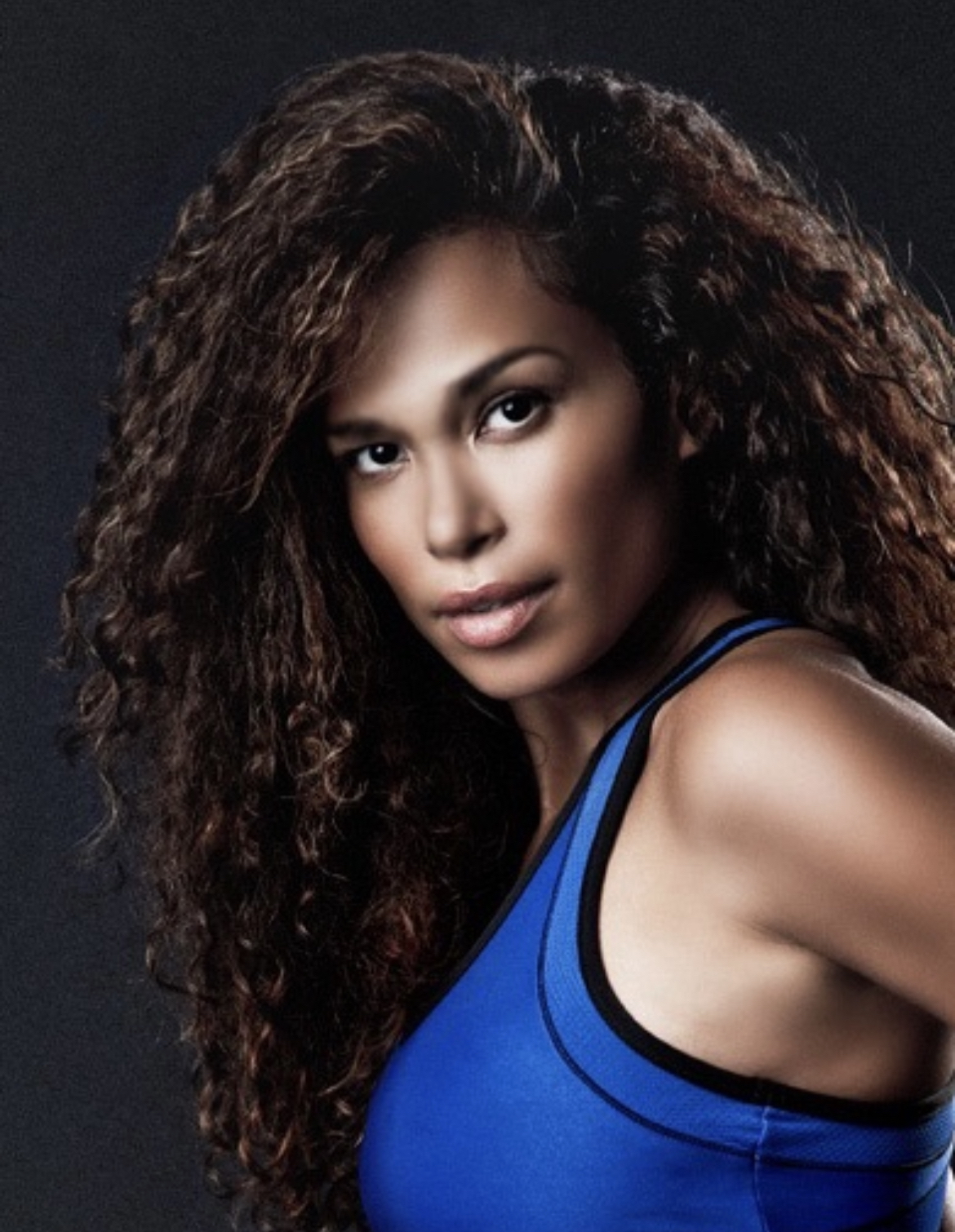 Natashia Williams-Blach Press Photo